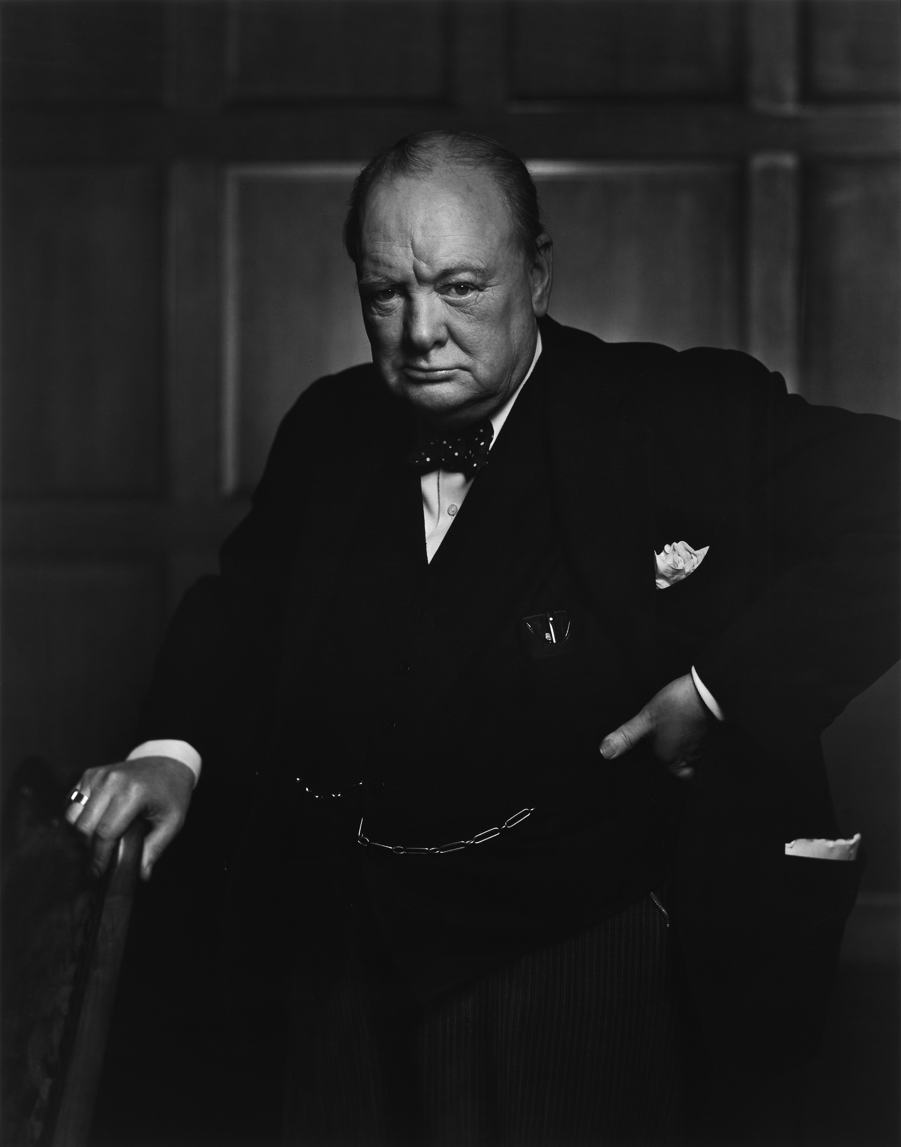 Title / Titre : Sir Winston Churchill Karsh called this picture "The Roaring Lion" Creator(s) / Créateur(s) : Yousuf Karsh Date(s) : December 30, 1941 / 30 décembre 1941 Reference No. / Numéro de référence : MIKAN 3915740 Location / Lieu : Ottawa, Ontario, Canada Credit / Mention de source : Yousuf Karsh. Library and Archives Canada, e010751643 / Yousuf Karsh. Bibliothèque et Archives e010751643